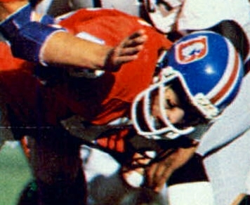 Denver Broncos defensive back Steve Foley pictured in a defensive play against the Oakland Raiders during the 1977 AFC Championship Game on January 1, 1978.